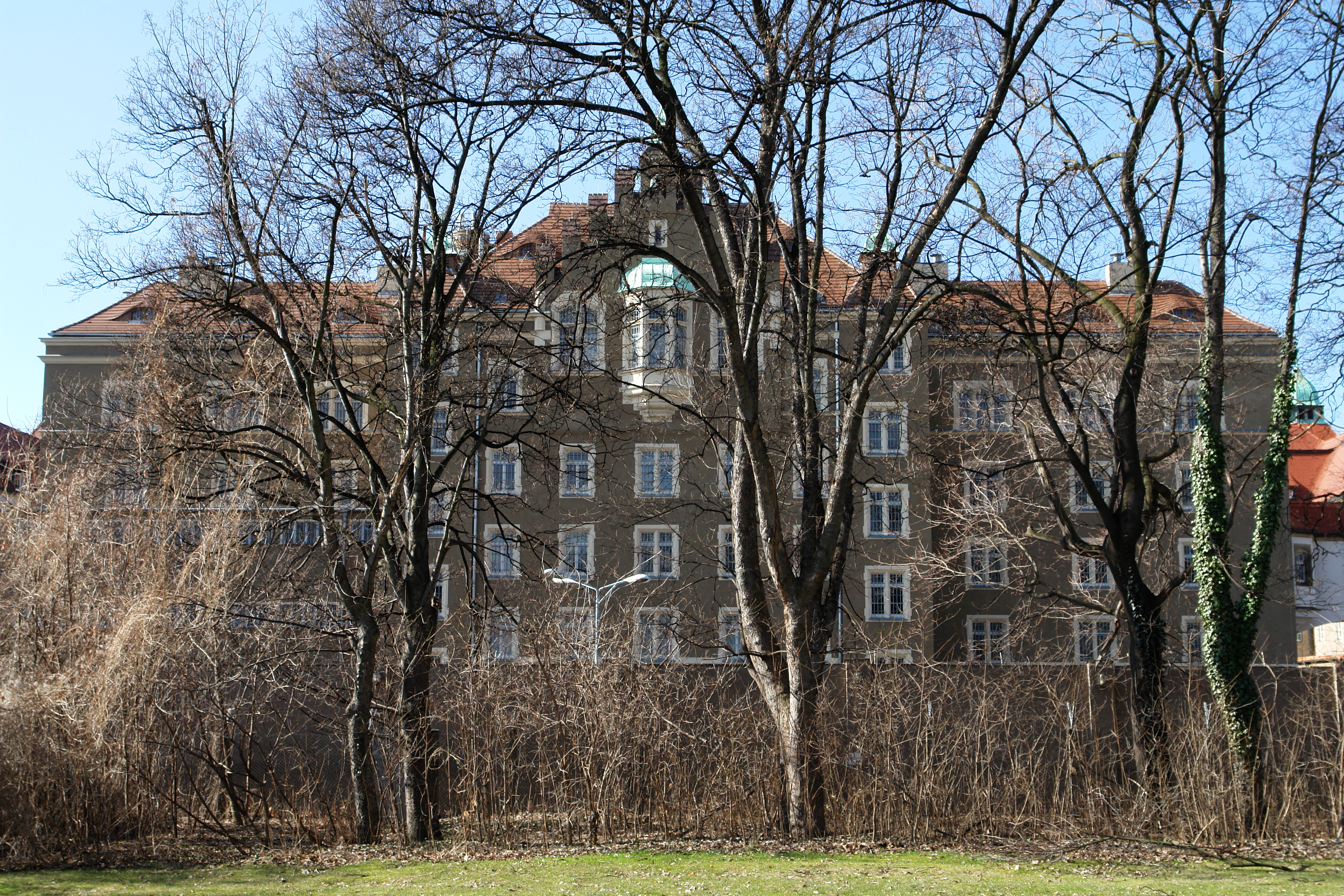 Memorial place in Bautzen in Saxony, Germany.